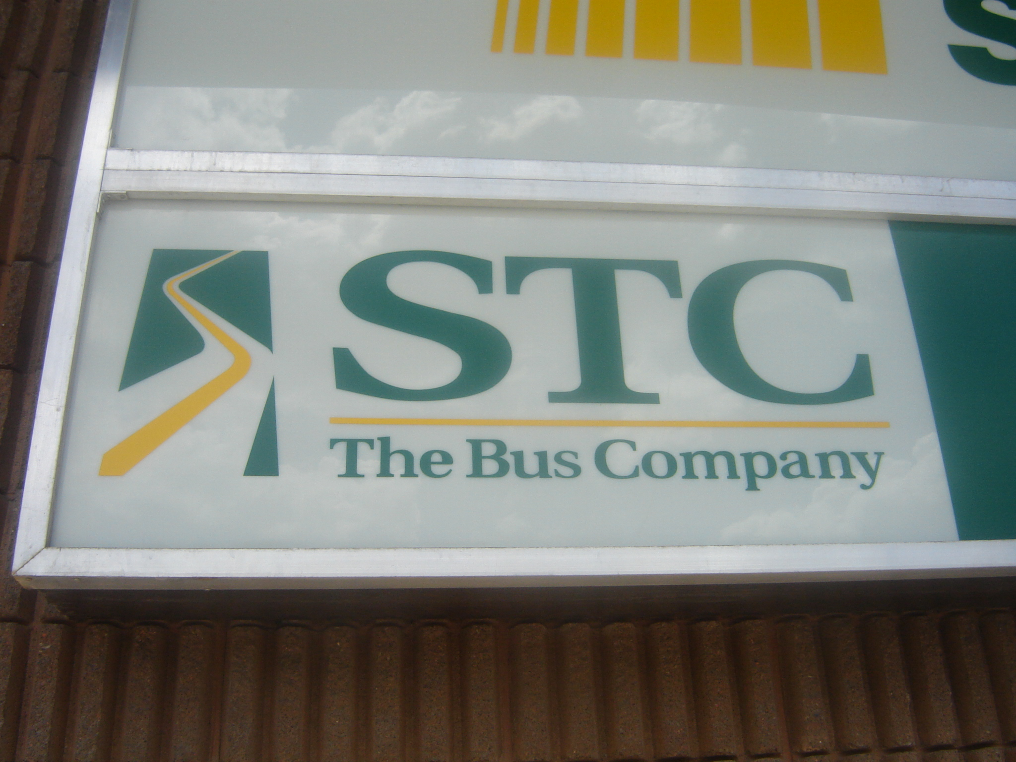 Saskatchewan Transportation Company building : 50 - 23rd Street East, Saskatoon